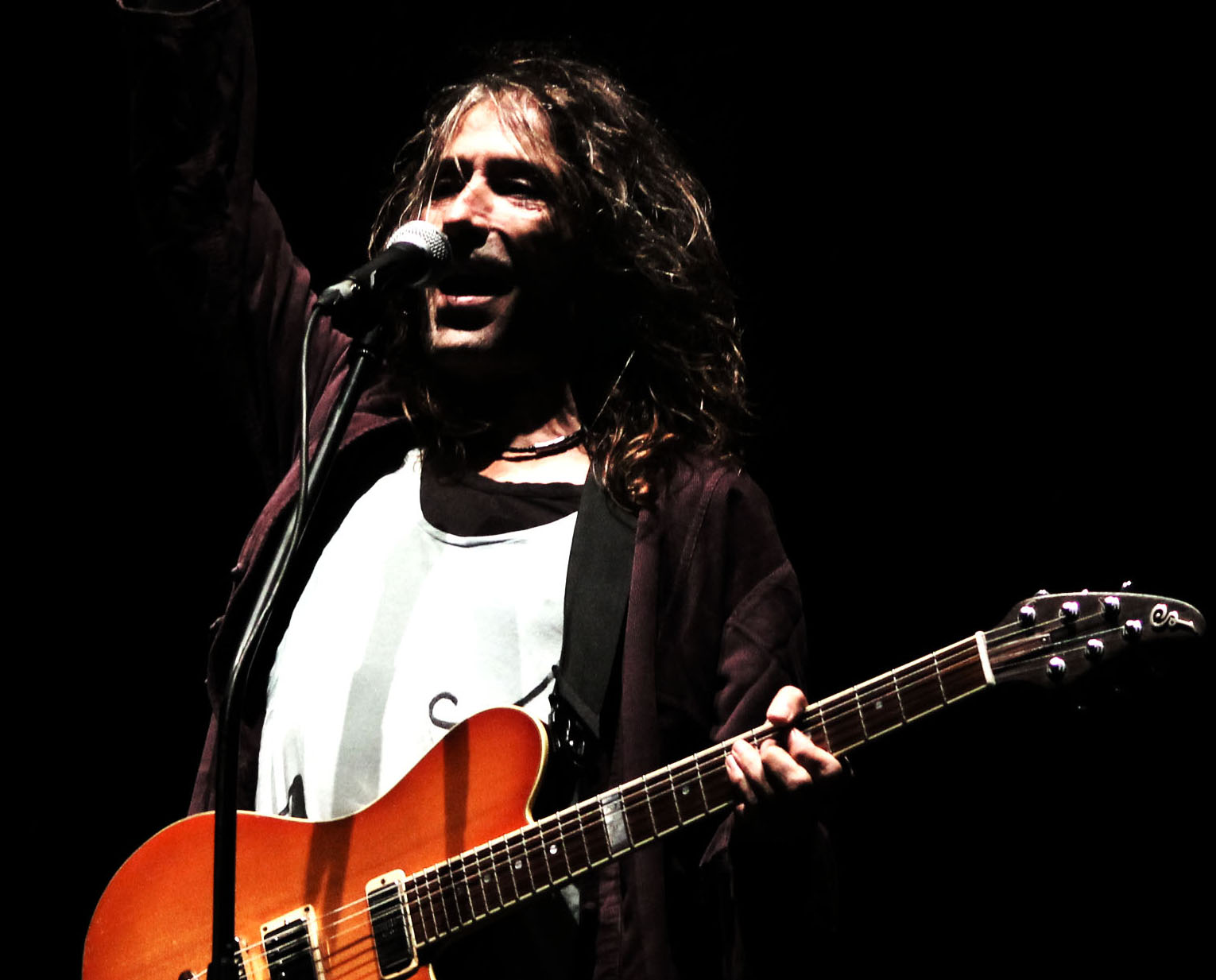 Extremoduro in Valladolid, 2014. A crop derived from an image with Creative Commons license on Wikimedia Commons